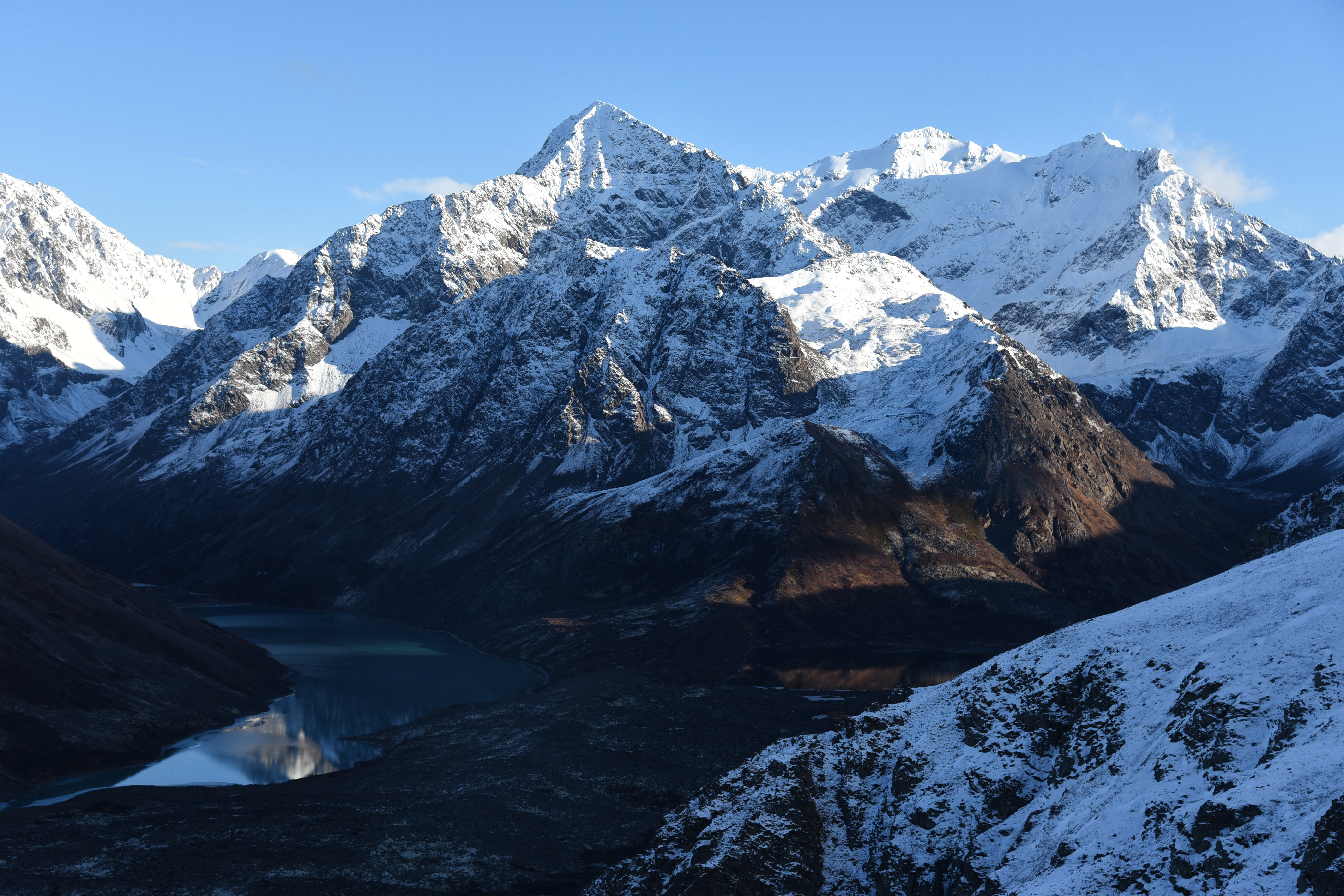 Cantata Peak is one of the tallest peaks at the head of South Fork Eagle River, in the Chugach Mountains of Alaska.